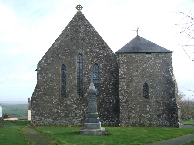 Mathry church and war memorial This is the western aspect of the church standing at the high point of the hill. It is said to have once had a steeple which was visible out to sea and used for navigation, but it was blown down by the wind. The church was completely rebuilt in 1867 but its origins go back beyond the beginning of the Christian era. The war memorial records the names of the sons of the parish who lost their lives in both world wars, half a dozen or so in each.